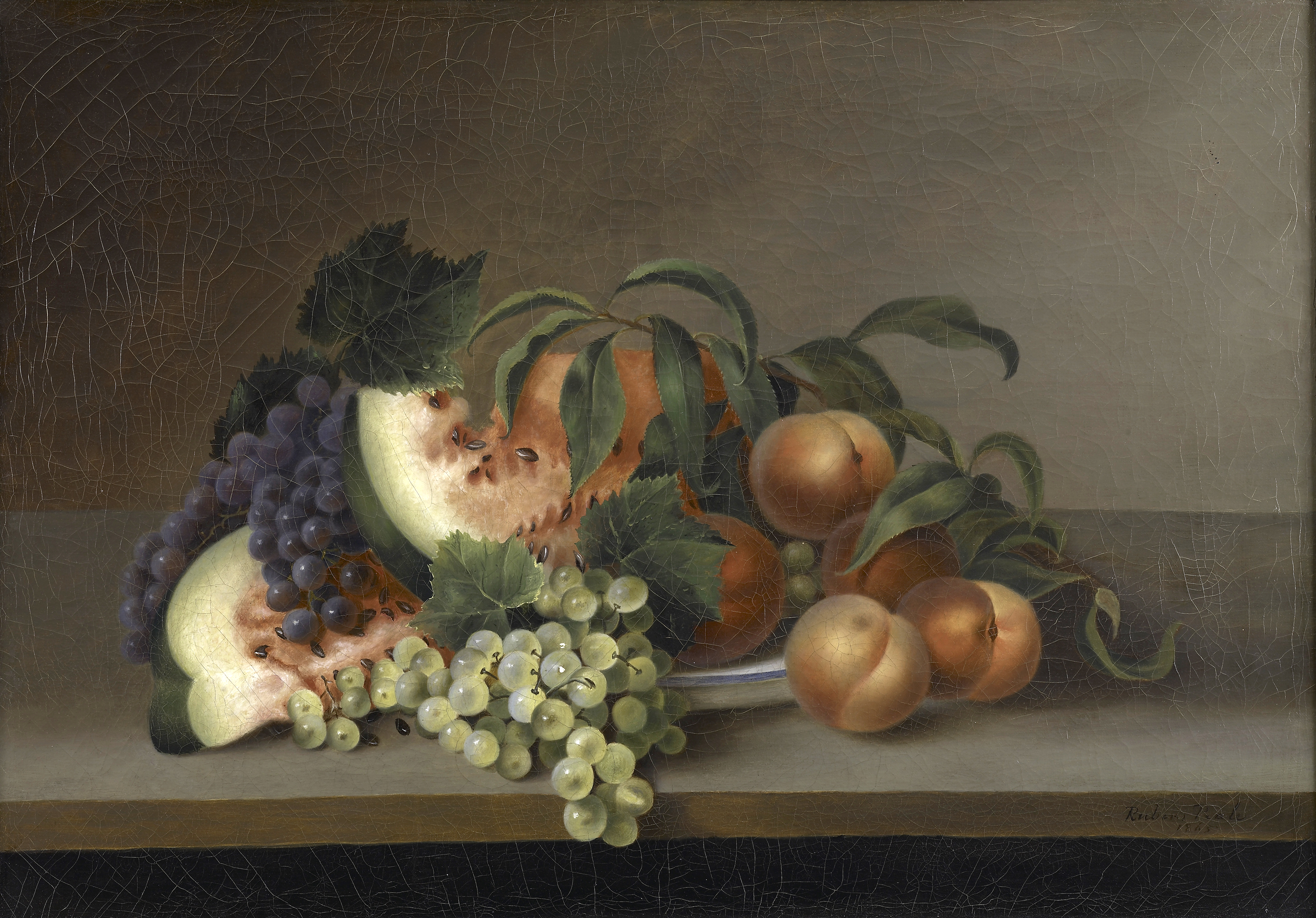 Rubens Peale, American, 1784–1865 Still Life with Watermelon, 1865 Oil on canvas 48.3 x 69.9 cm. (19 x 27 1/2 in.) frame: 66.5 × 87 × 8.5 cm (26 3/16 × 34 1/4 × 3 3/8 in.) Gift in honor of Professor John Wilmerding from his friends and former students and the Kathleen C. Sherrerd Fund for Acquisitions in American Art 2007-20 Among American painter Charles Willson Peale’s many artistic children, Rubens Peale was a late bloomer. His poor eyesight meant he did not receive his father’s instruction in painting but instead was groomed to manage "Peale’s Museum," the public display of art and natural history Charles Willson began to develop during Rubens’s youth. It was not until the age of seventy-one that Peale was taught to paint — by his daughter, Mary. Still Life with Watermelon, completed during Rubens’s eighty-first year, offers eloquent testimony that he ended his brief career at the peak of his powers. A finely balanced, completely assured example of the artist’s numerically modest oeuvre, the painting partakes of the quiet simplicity of his brother Raphaelle’s frieze-like, Neoclassical compositions, executed decades earlier, and relates as well to his uncle James Peale’s horizontal tabletop arrangements of indirectly illuminated fruit, including the pictorial device of a piece of fruit shown overhanging the table’s edge, relieving its insistent planarity.